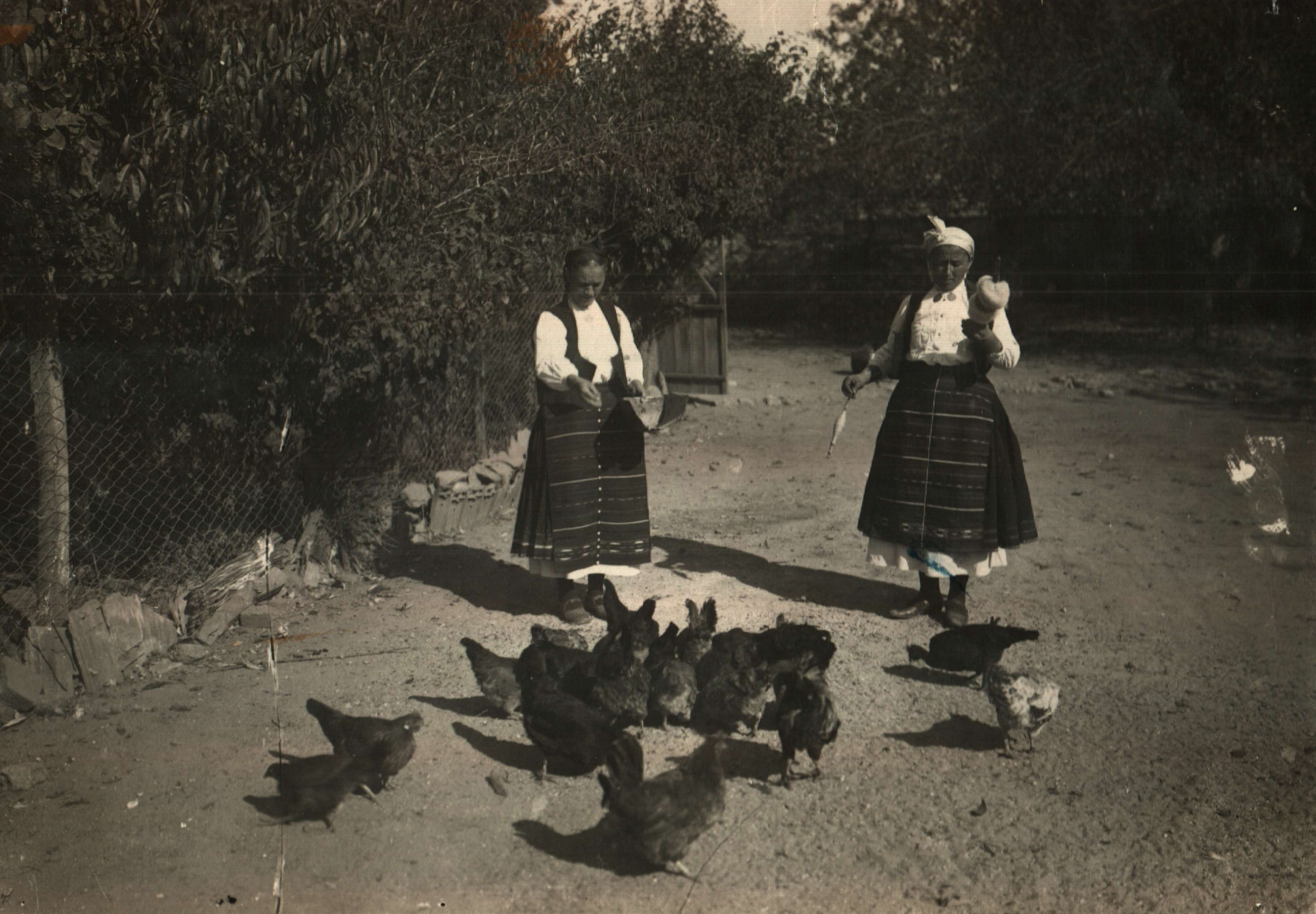 Handicraft of Bulgaria